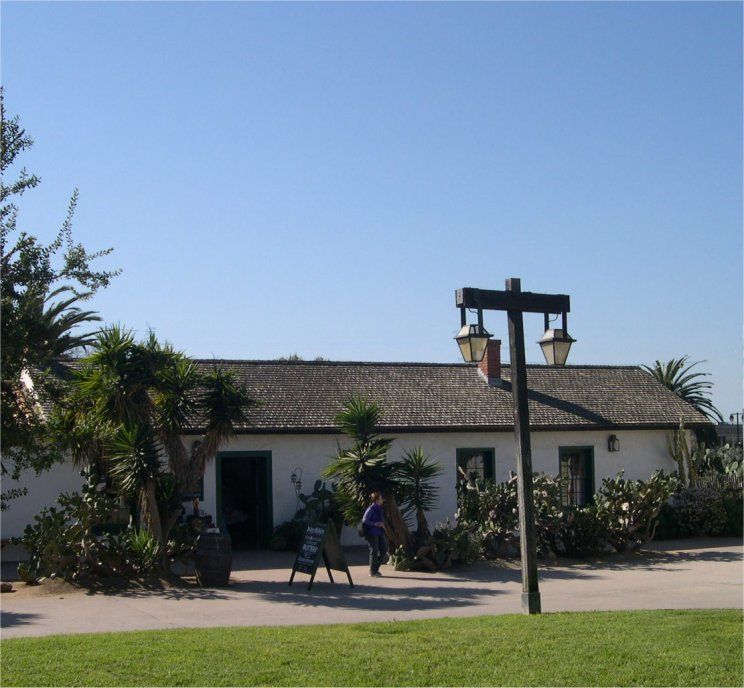 Wikipedia:Thomas Wrightington adobe Early adobe of an early merchant of San Diego, California. Photo taken January 2005 in Old Town San Diego.